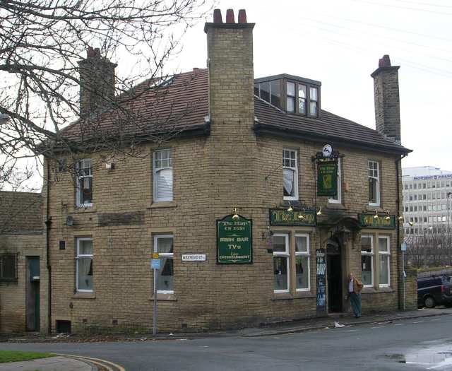 The Harp of Erin - Westend Street